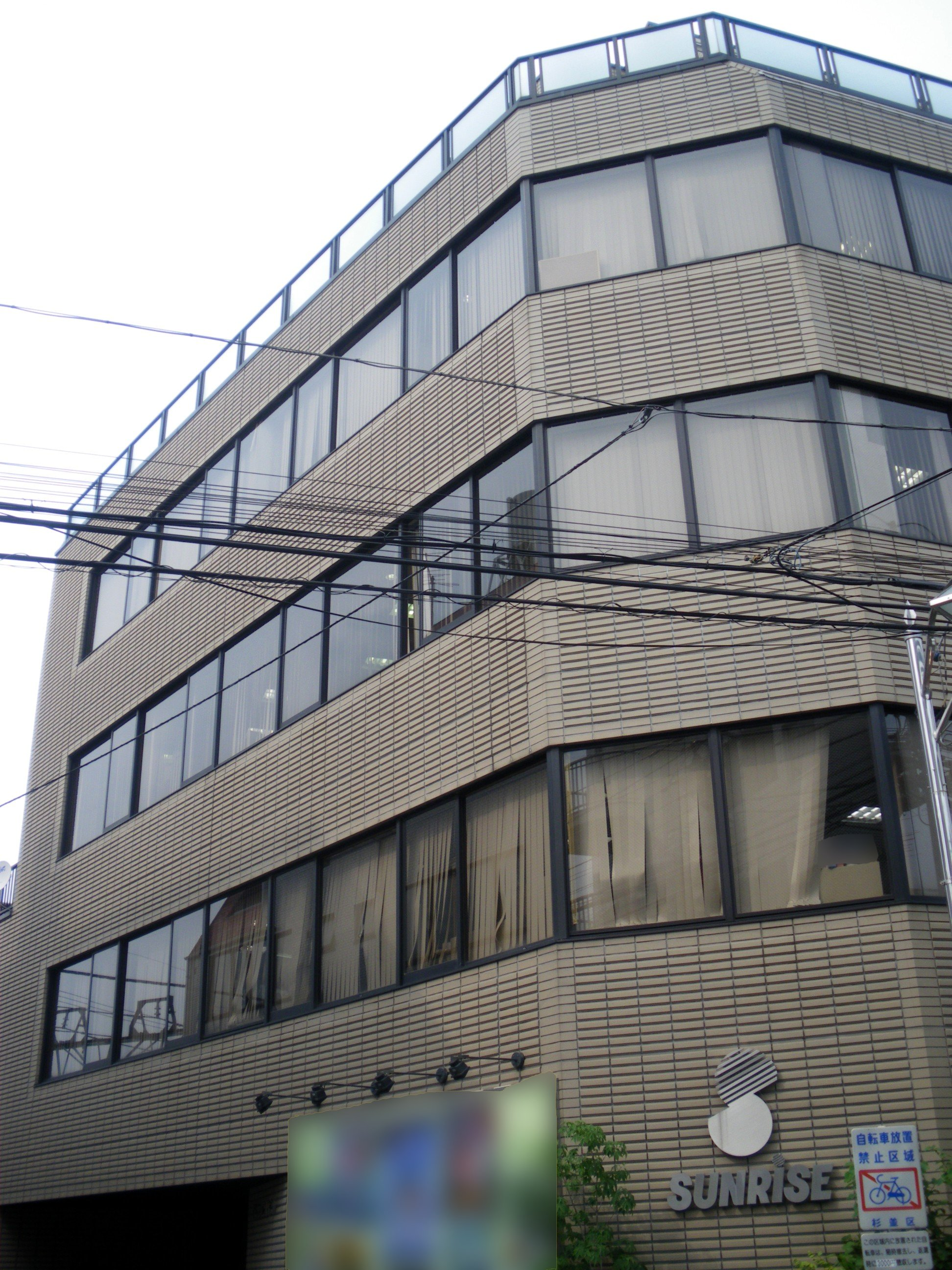 Sunrise head office(Kamiigusa,Suginami,Tokyo)